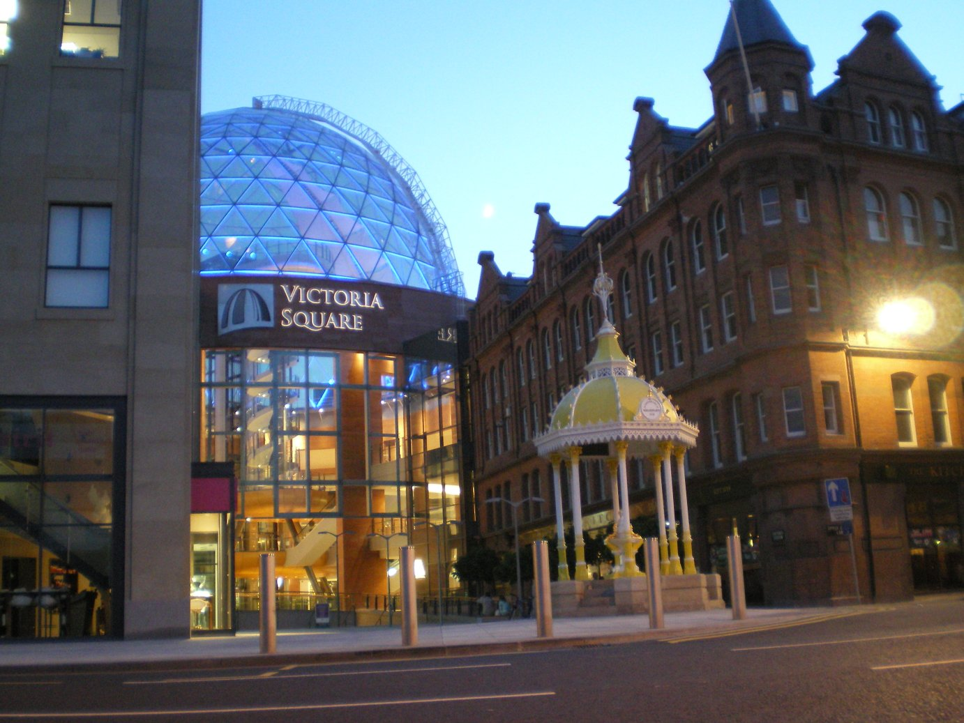 Belfast, Victoria Square at night